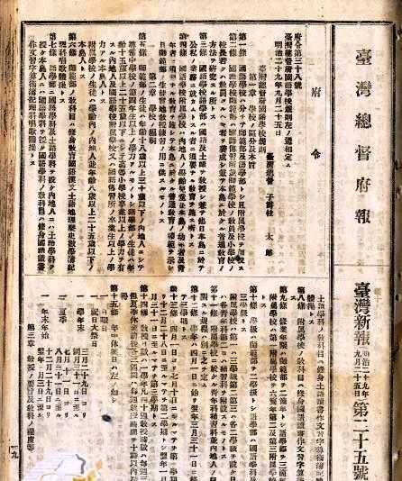 25th September 1896 Gazette of the Governor — General of Taiwan